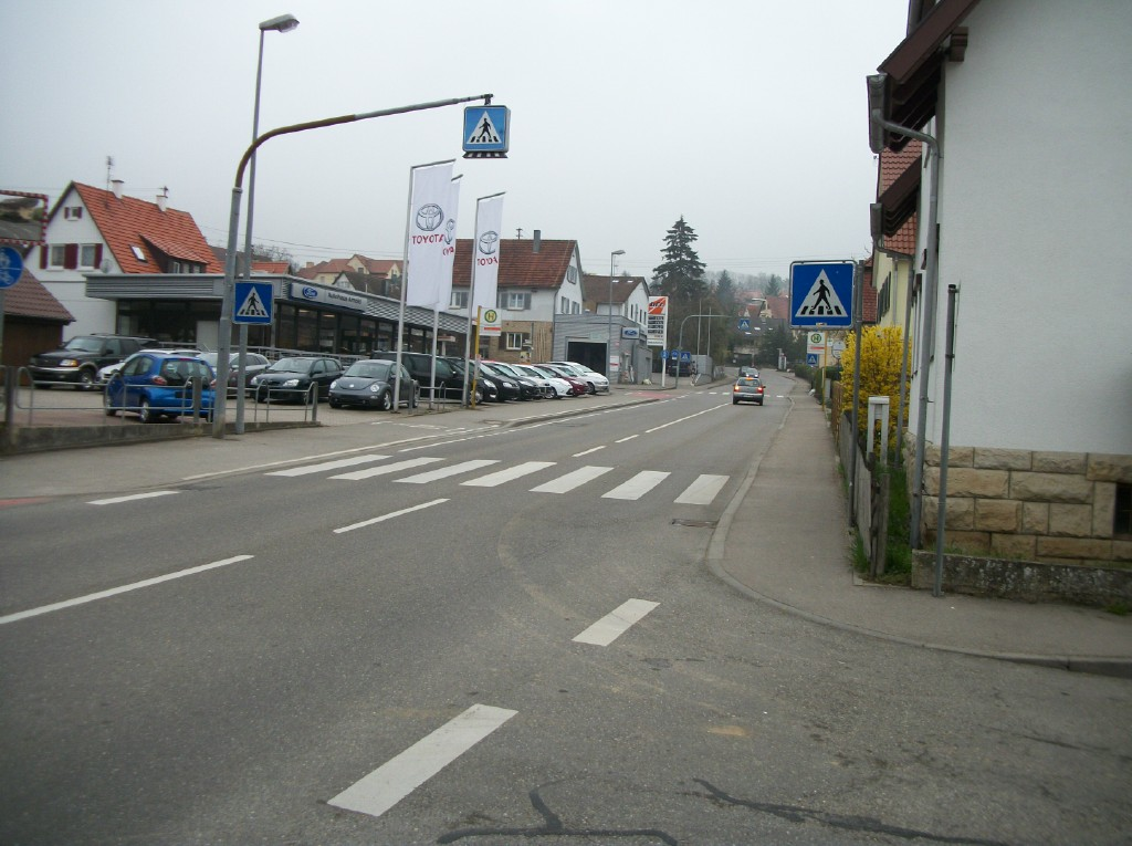 A car dealer & a pedestrian crossing in Plattenhardt.